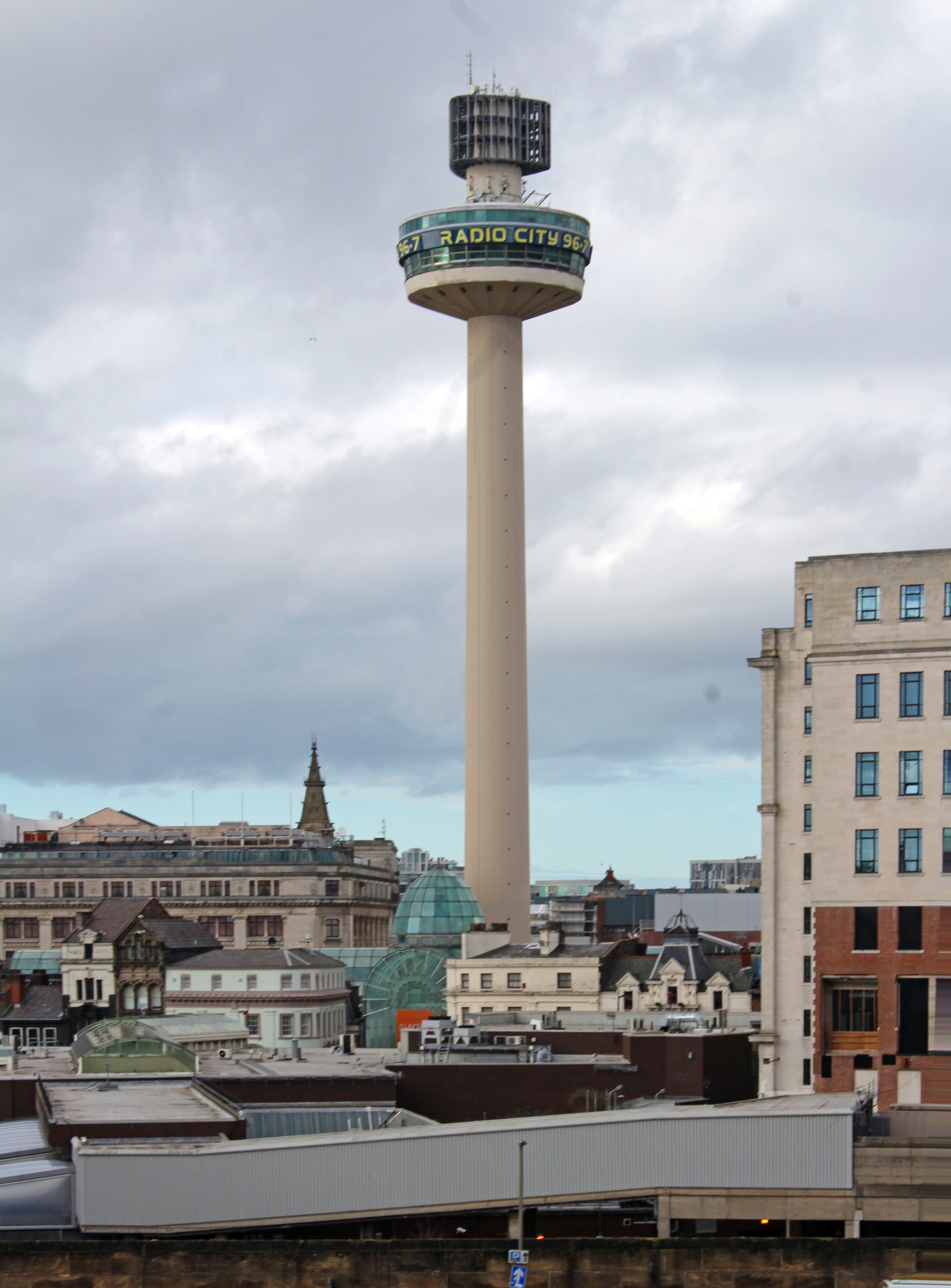 St John's Beacon (now renamed Radio CIty Tower) is the second-highest building in Liverpool at 138m/453ft. This view northwest from a multi-storey car park on Heathfield Street is a rare complete view of the tower from the south. In the foreground is an access tunnel to Liverpool Central railway station and to the right, the rear of Lewis's department store, Liverpool on Lawton Street/Cropper Street.